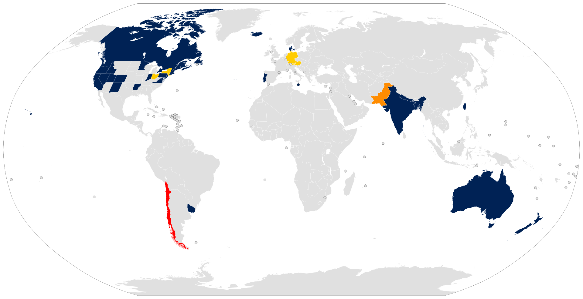 Legal recognition of non-binary gender (added Taiwan)